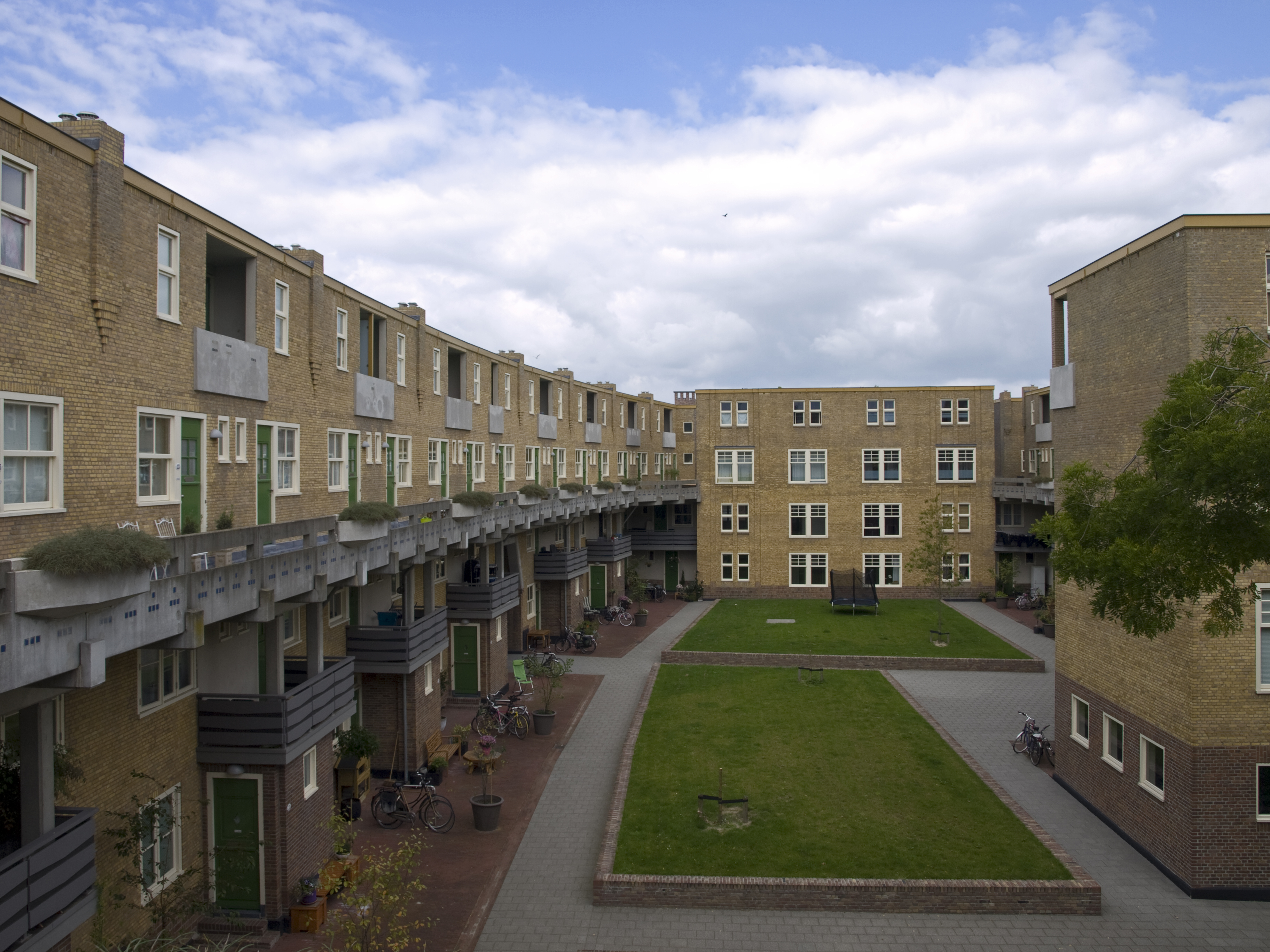 Justus van Effencomplex, the western gallery